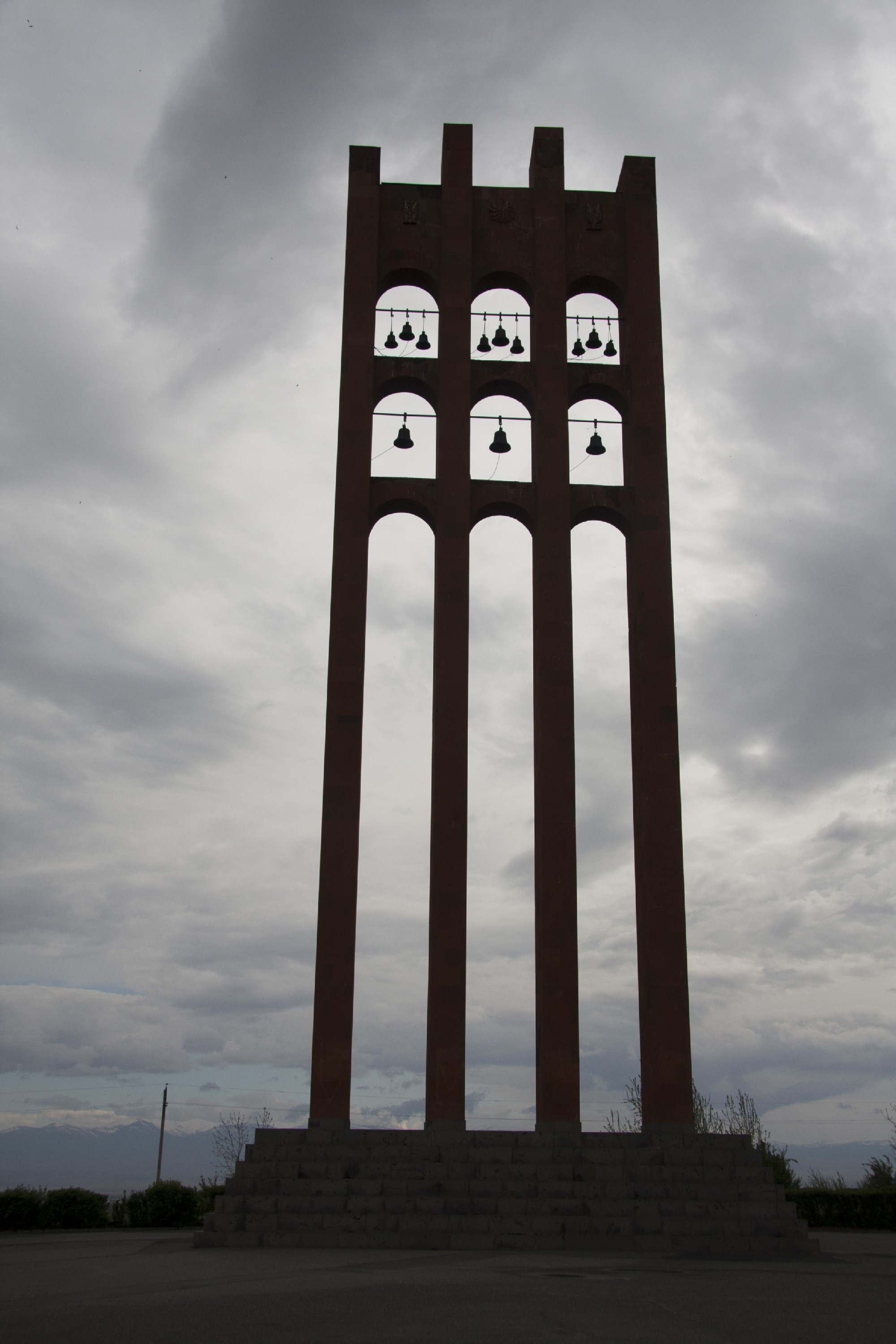 ՀՈՒՇԱՀԱՄԱԼԻՐ՝ ՍԱՐԴԱՐԱՊԱՏԻ ՃԱԿԱՏԱՄԱՐՏԻ ՀԵՐՈՍՆԵՐԻ 59/3